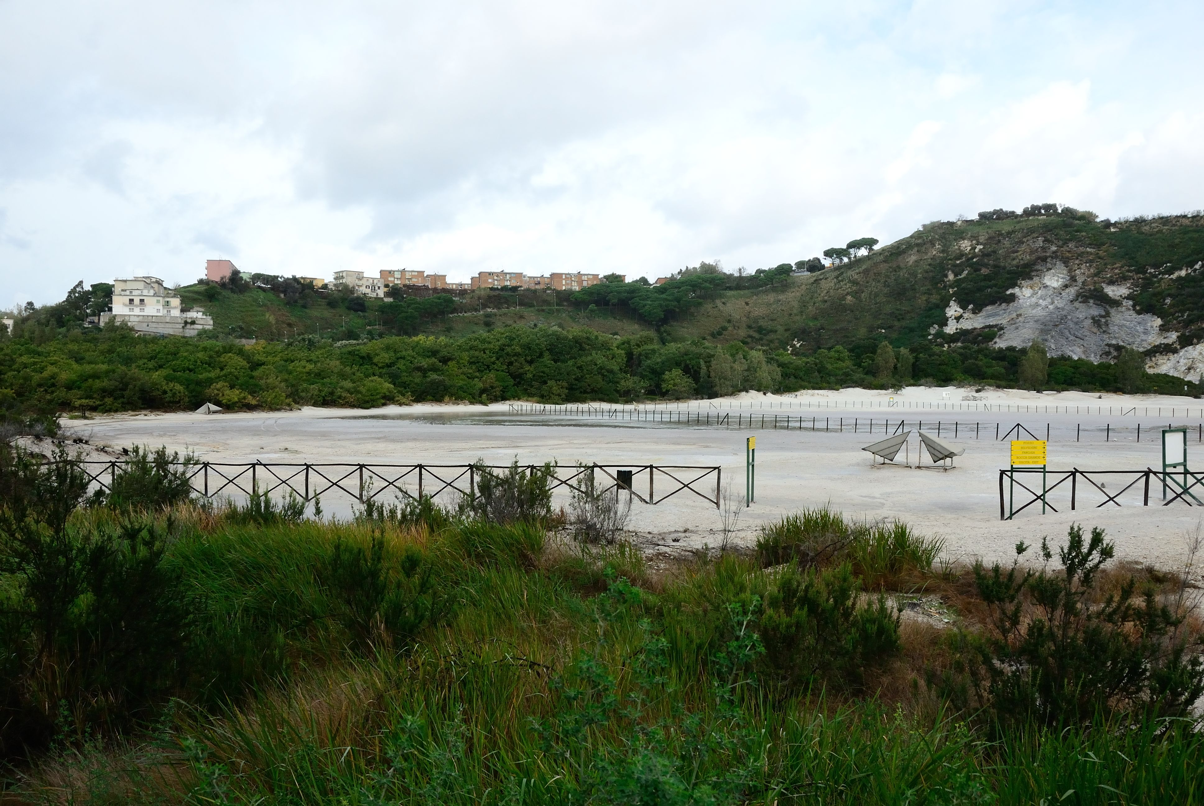 Field trip to Campi Flegrei